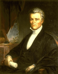 This slightly cropped image is of an oil portrait of Indiana Governor Noah Noble (1794-1844) painted by artist Jacob Cox (1810 - 1892). The original digital image may be viewed at [1]